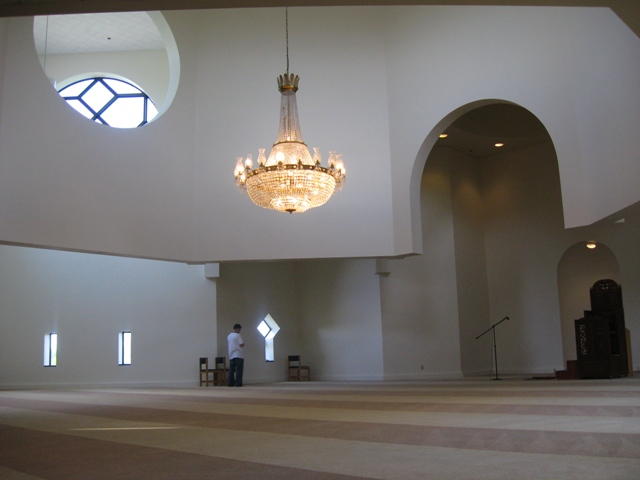 Interior of ISNA building, Plainfield, IN